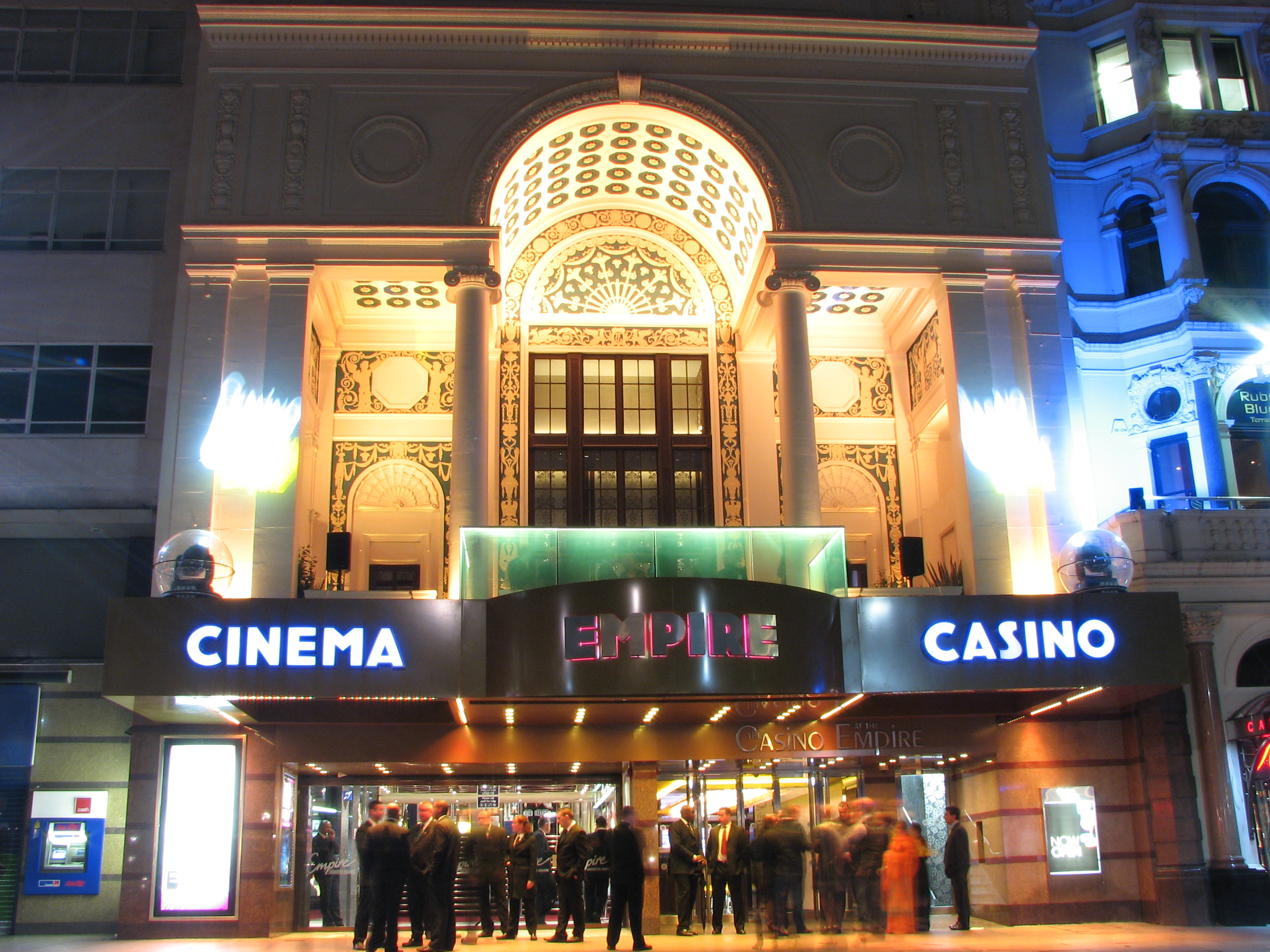 This photo is being used on the worldcasinodirectory site here: This photo was blogged here